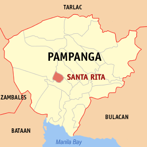 Map of Pampanga showing the location of Santa Rita